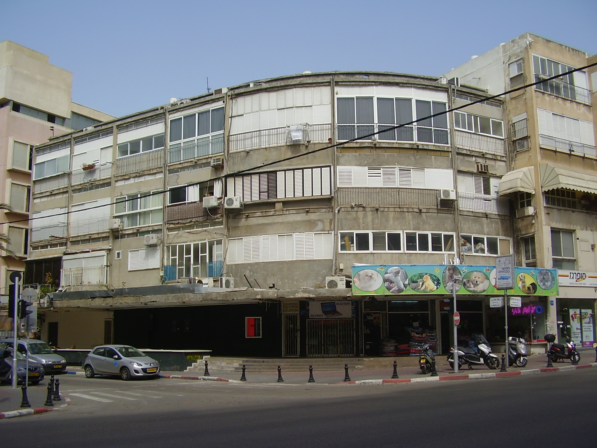 theater club building in tel aviv